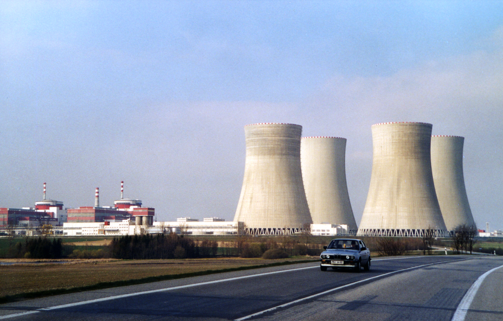 The cooling towers of the Temelin Nuclear Power Plant. (Czech Republic, April 2002) Photo Credit: Vadim Mouchkin / IAEA